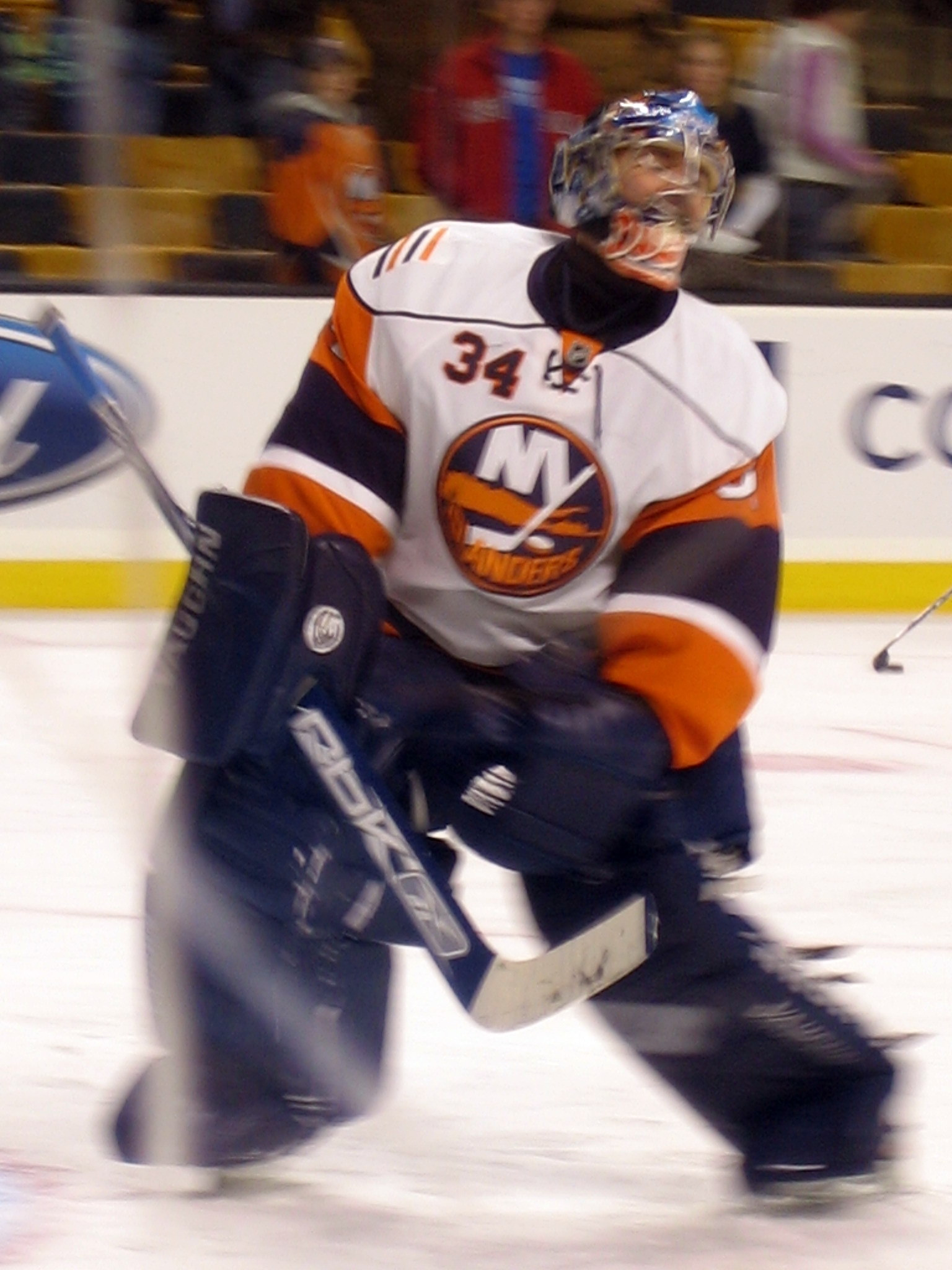 This photograph was taken by me at the Isles-Bruins game at Boston's TD Banknorth Garden on 1-24-08